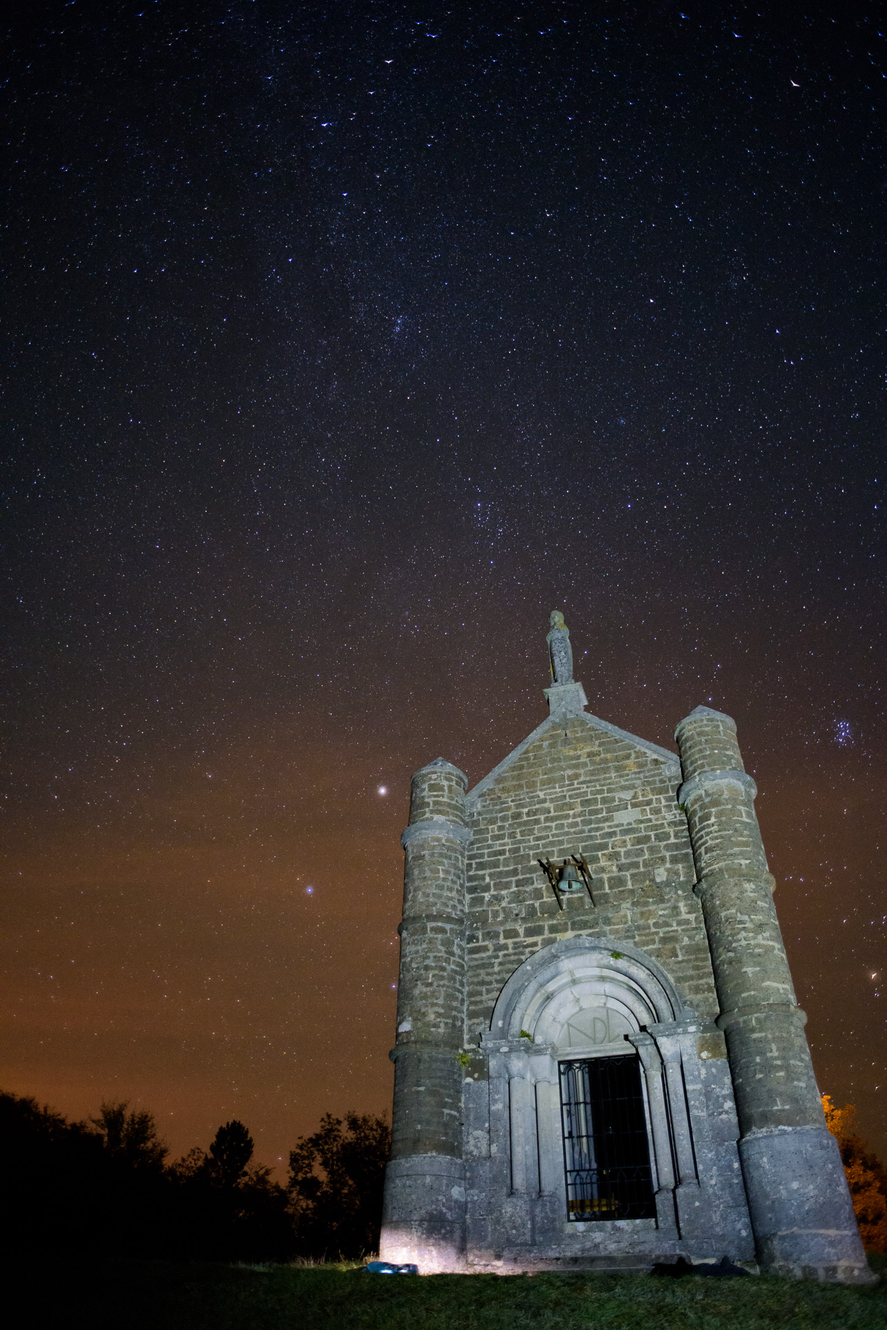 The Chapel of Menou, by night.